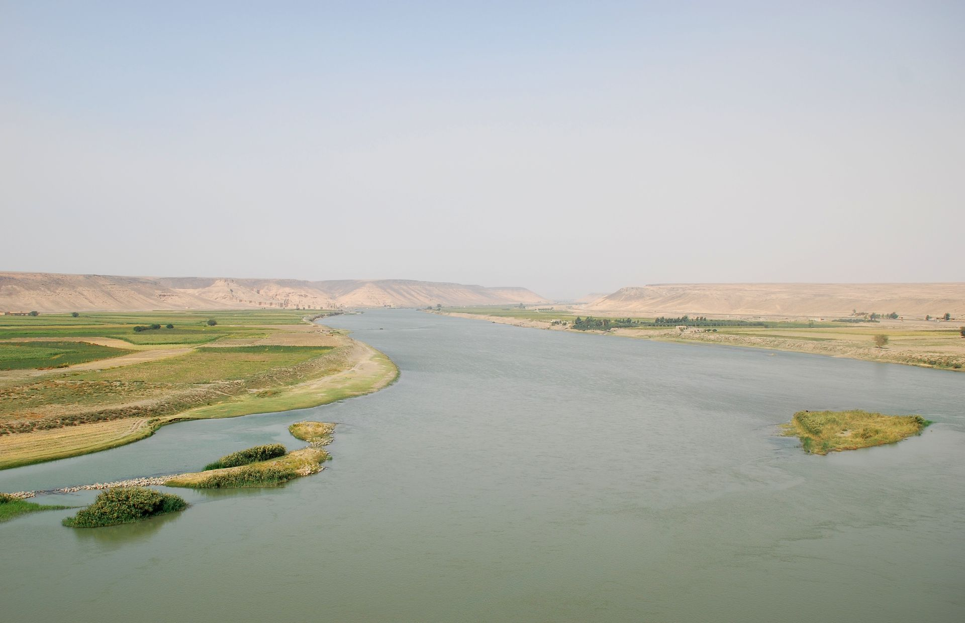 Euphrat at Zalabiyeh, near Halabiyeh, Syria